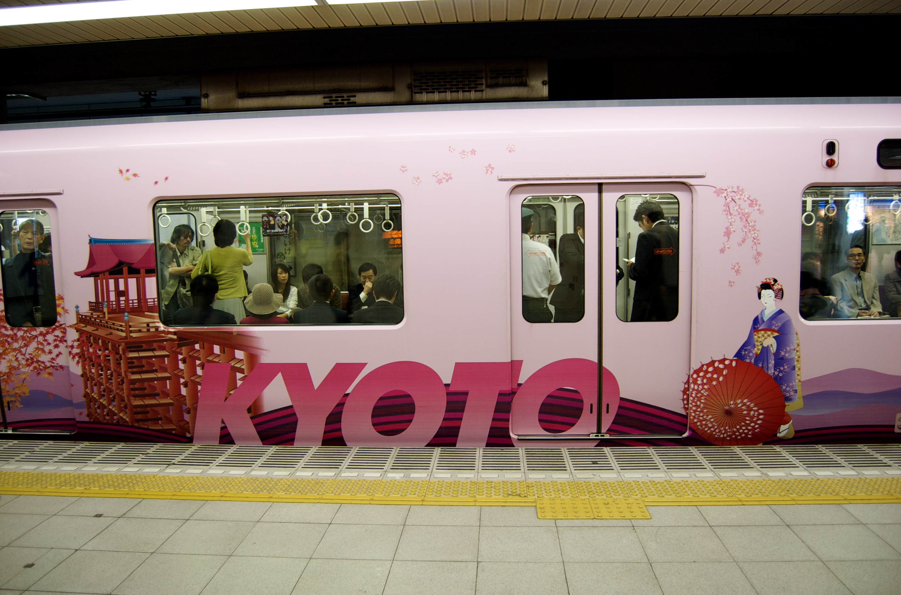 A train coloured with Kyoto's trademark - maikos.